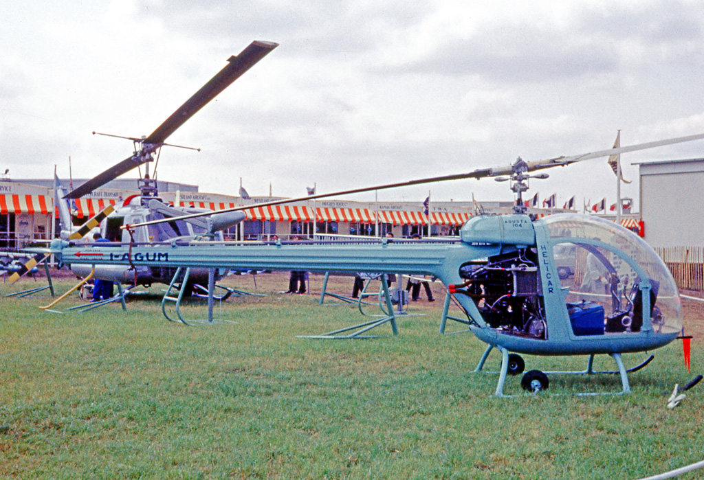 Agusta 104 I-AGUM exhibited at the 1963 Paris Air Show